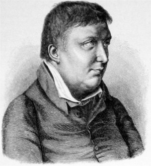 Scanned from German "Meyer's Encyclopedia", 1906 画像:Friederich von Schlegel.jpg